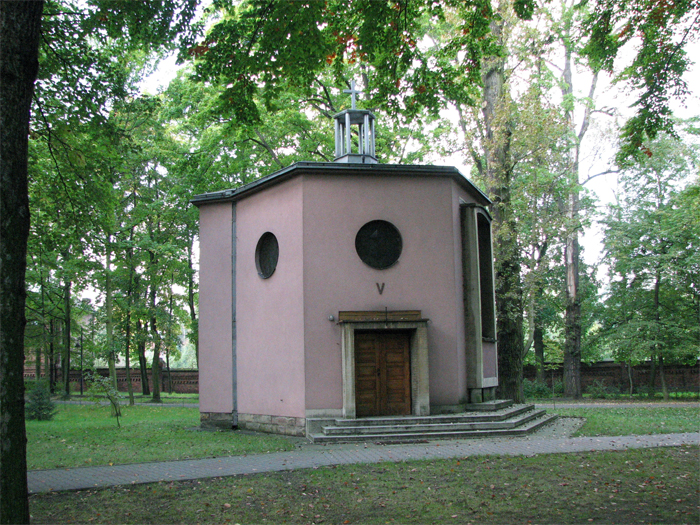 Calvary in Katowice Panewniki, Stations of the Cross - "Simon of Cyrene carries the cross". Completed in 1939. Sculptor Marian Wnuk. Foundation of the staff of the Huta Baildon in Katowice.